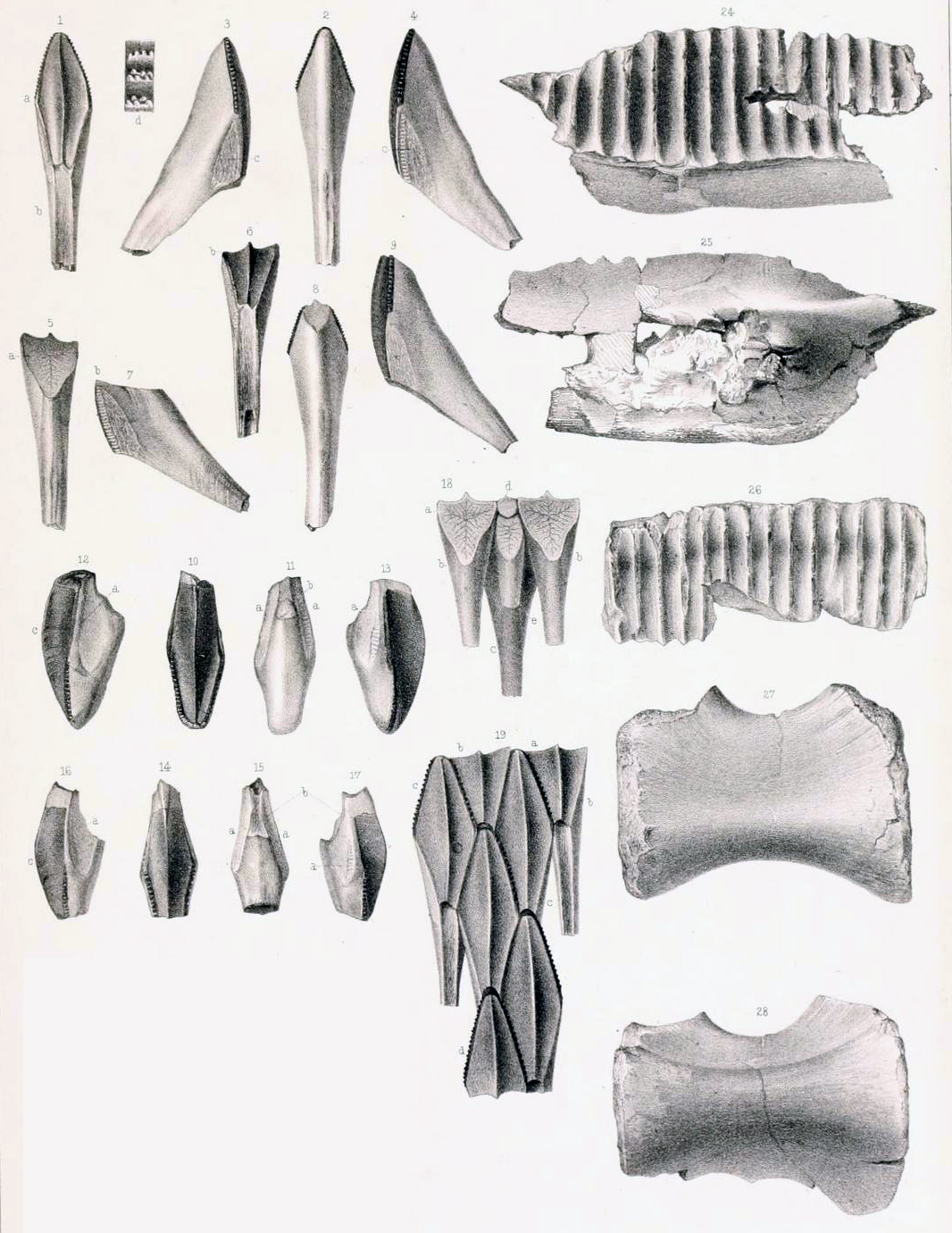 Plate XIII from an 1865 lithograph of fossilised Hadrosaurus bones.